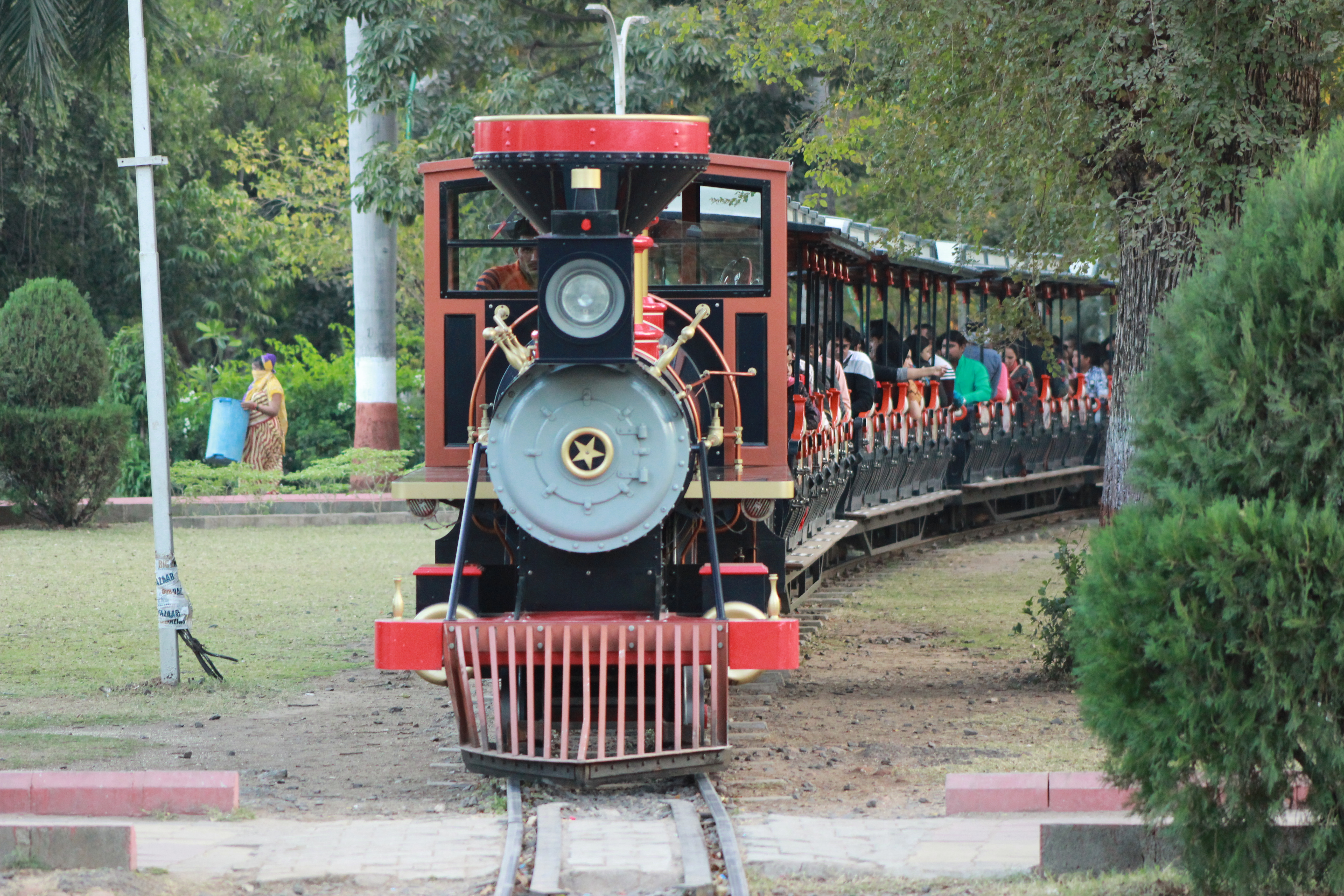 Joy train at sayajibuag Vadodara ગુજરાતી: જોય ટ્રેન- સયાજીબાગ વડોદરા